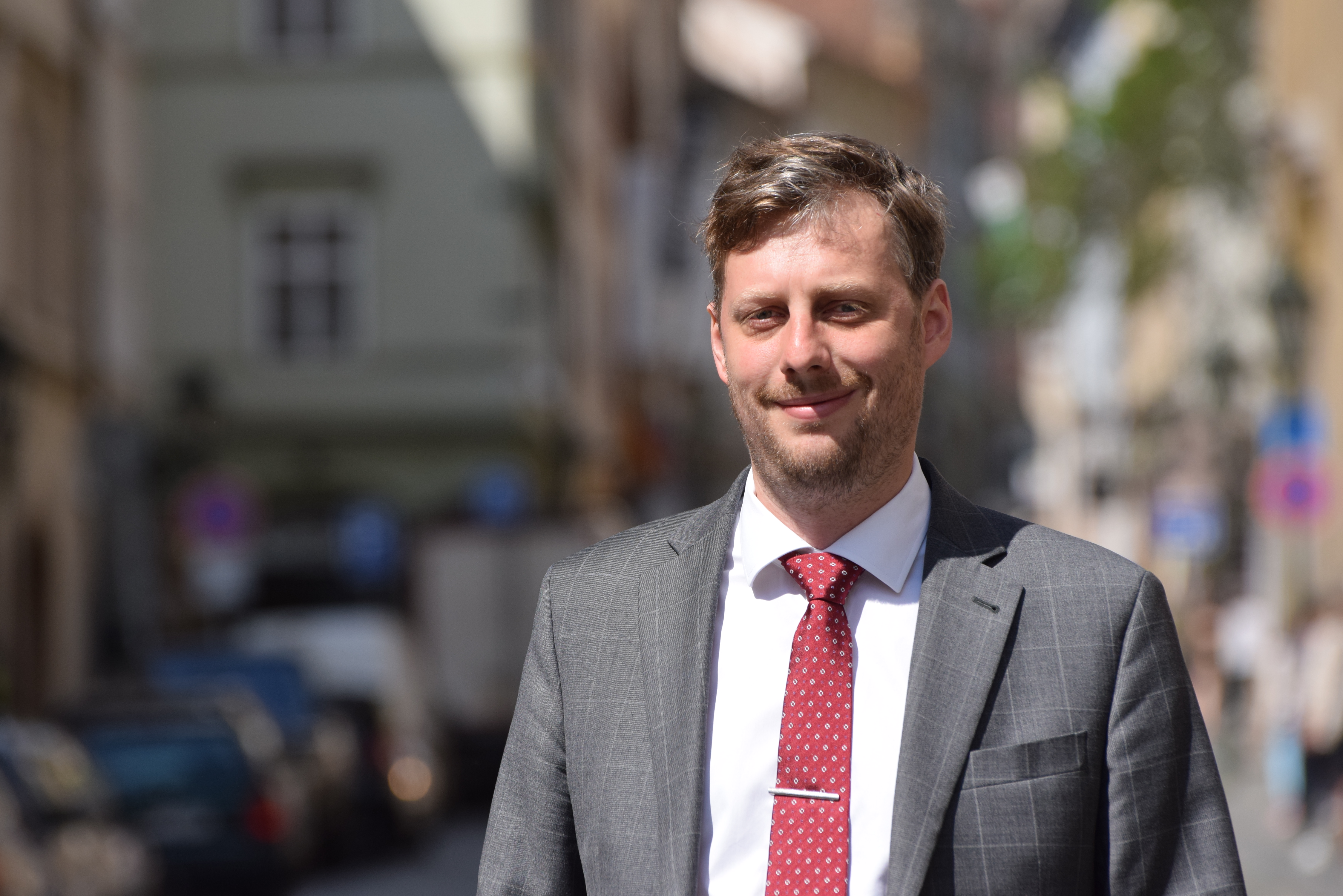 Ondřej Ditrych - director of the Institue of international relations.